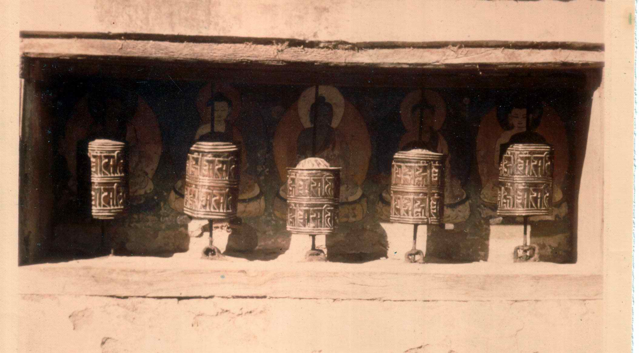 I took this photo myself in 1993. John Hill 01:18, 18 August 2007 (UTC) Note: This photo was actually taken in 1973 NOT 1974 - but I don't know how to change the name and it probably doesn't matter much. John Hill 01:50, 18 August 2007 (UTC)